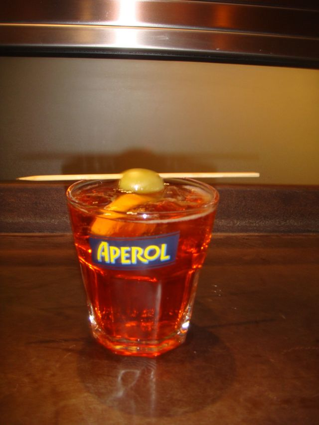 Typical Venetian coctail Spritz as it prepared in one Osteria near Realto Market on campo Bella Vienna